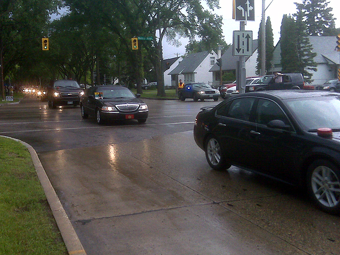 Motorcade for Queen Elizabeth II on Route to 17 Wing in Winnipeg, Manitoba.